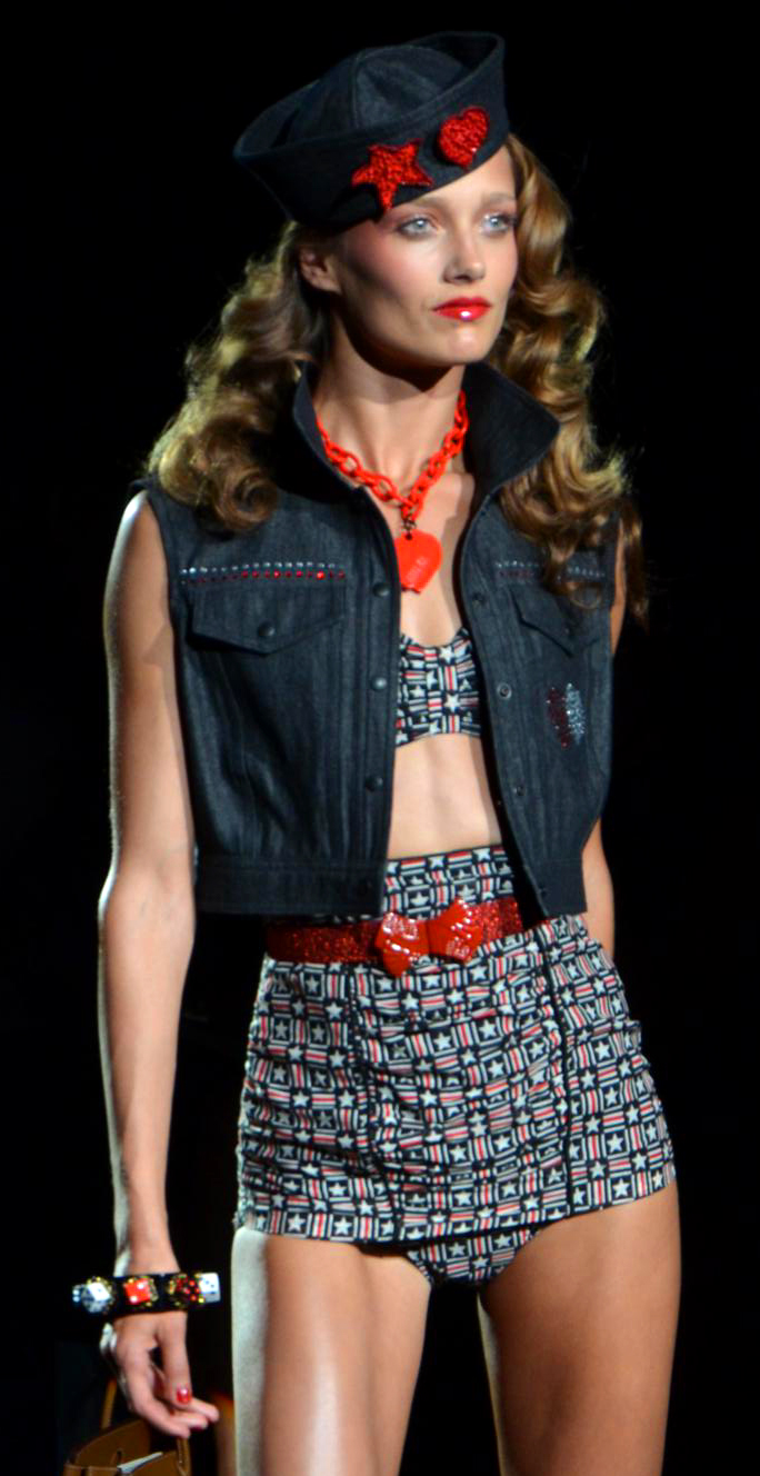 Karmen Pedaru modelling a microskirt (with matching knickers and bikini top) and sleeveless jacket by Anna Sui, 2011.